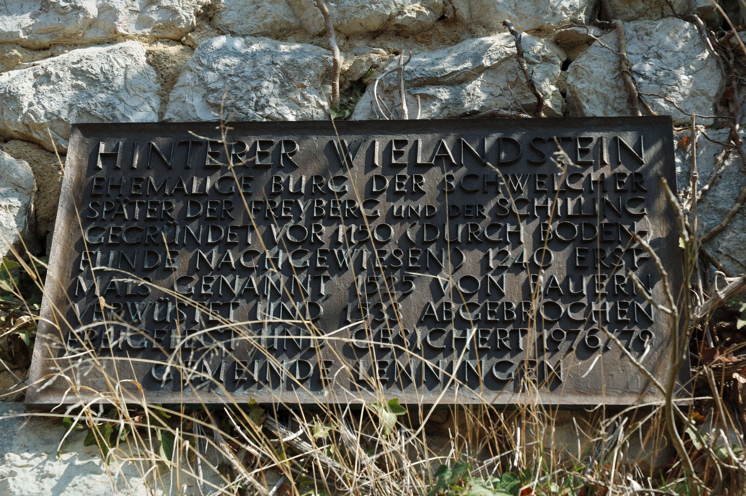 Plate at the Wielandstein castle ruin, Lenningen.